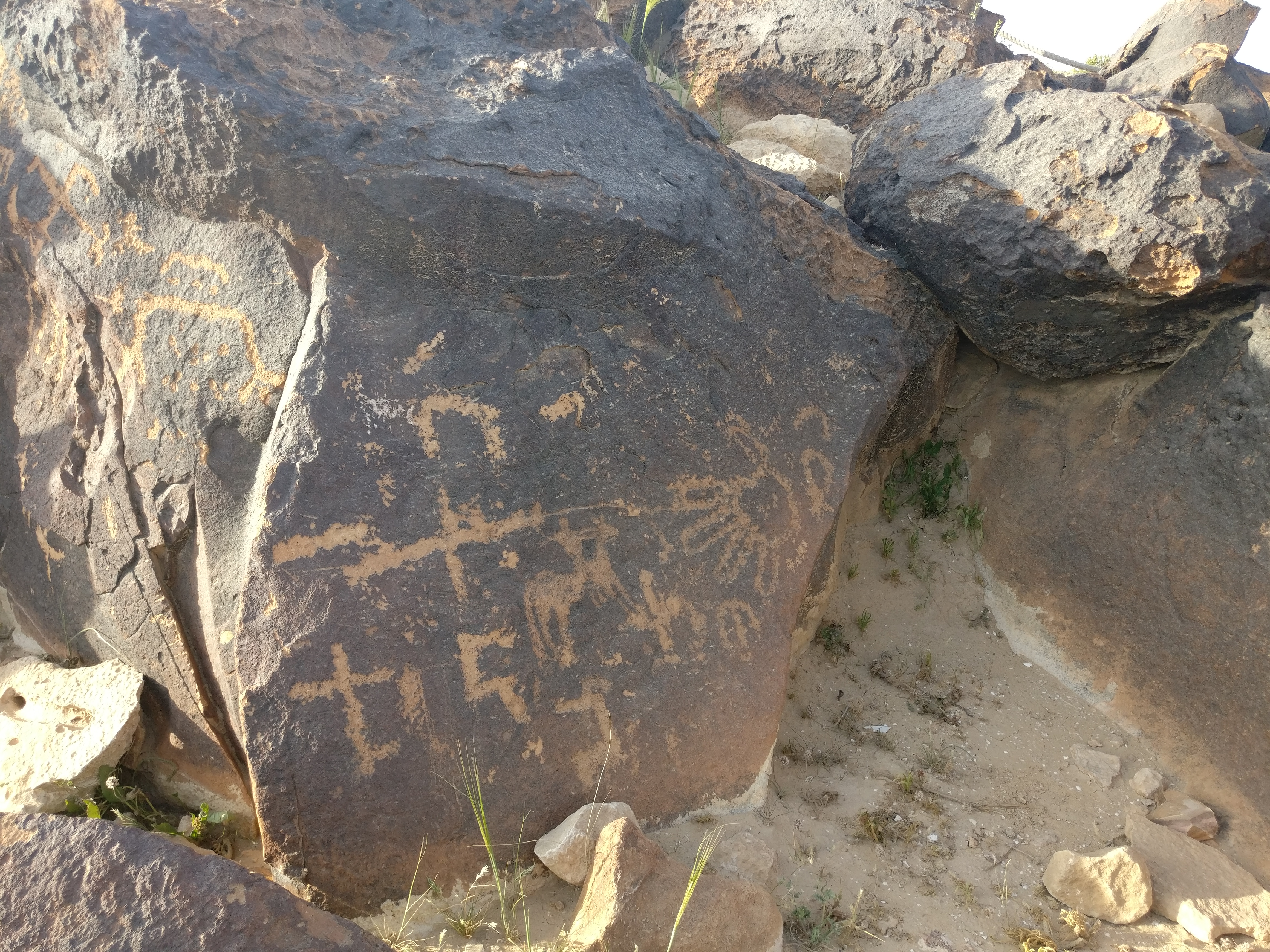 Petroglyphs at Mehia mount Israel - rider and bedouin wassams